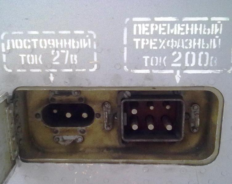 Plane power connectors (DC 27V and ~3AC 200V) for auxilary energy supplying from airport.